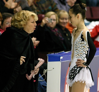 Tatiana Tarasova, left, coaches Sasha Cohen at the 2003 Skate Canada competition in Mississauga, Ontario.